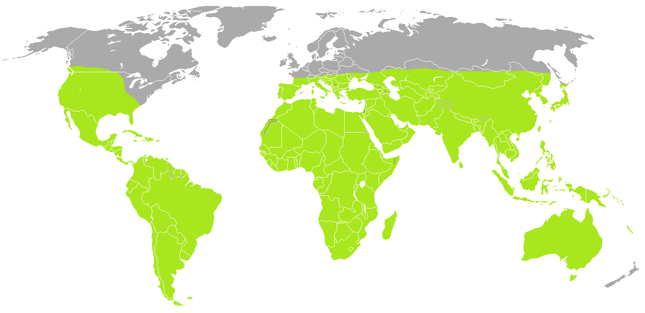 A blank map of the world as of 2008, with country outlines, for making country locator maps. This map uses the Robinson projection centered on the Greenwich Prime Meridian and includes various microstates and island nations. All territories indicated in the UN listing of territories and regions are exhibited.